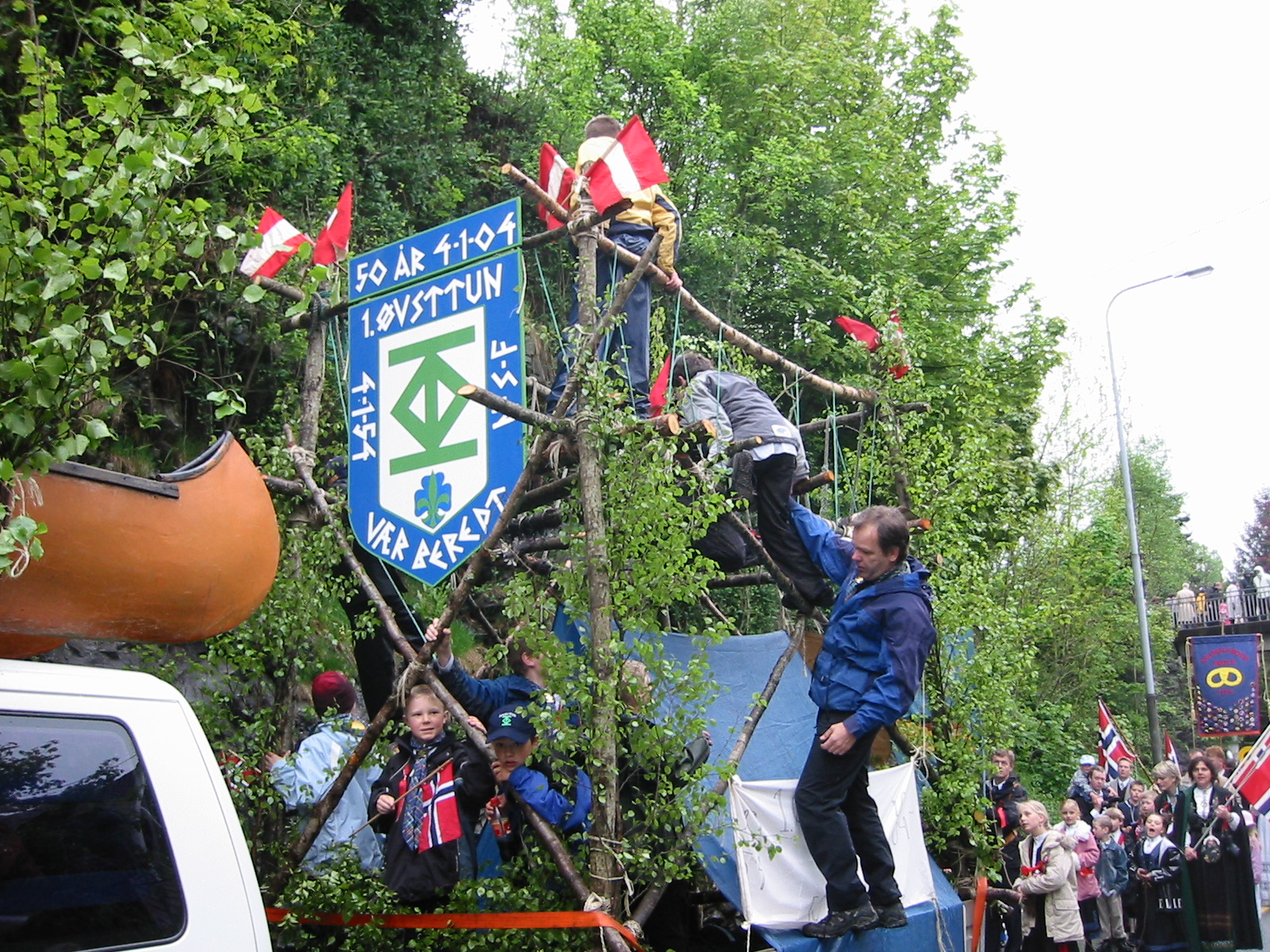 1. Øvsttun speidergruppe i 17. mai-prosesjonen på Nesttun i 2004, like ved Mårdalen bybaneholdeplass.